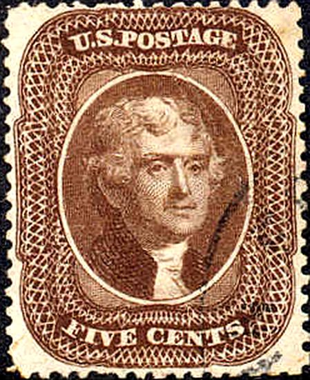 Thomas_Jefferson_1856_Issue-5c.jpg (note that while the design dates from 1856, perforated stamps of this design did not appear until 1857)